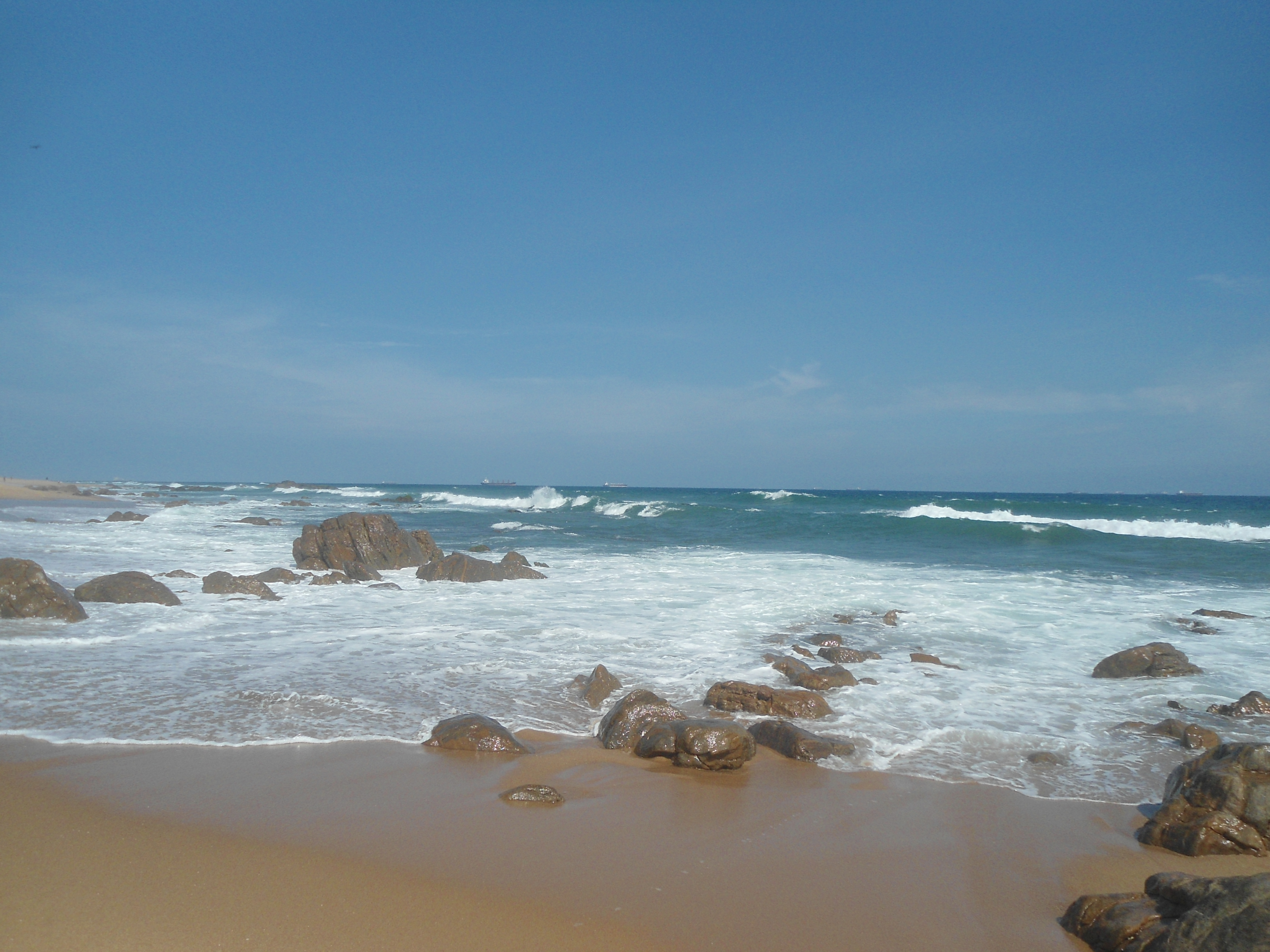 An afternoon view of RK Beach in Visakhapatnam